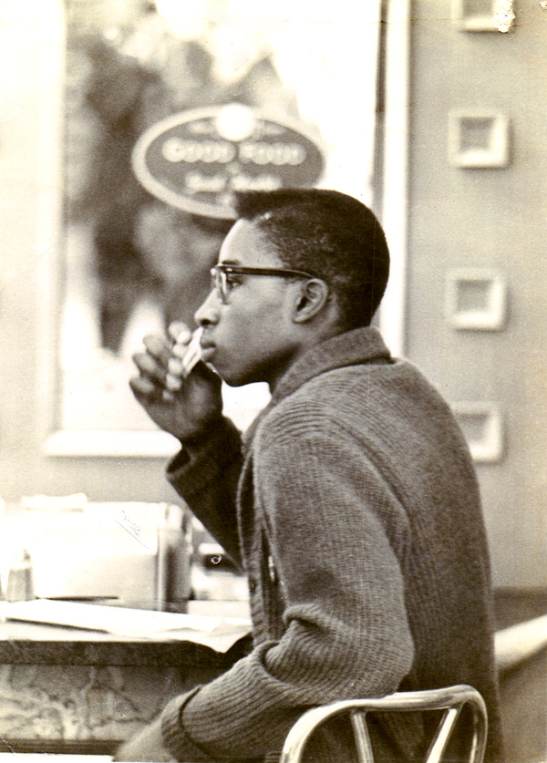 Accompanying note: "With money in his hand, FAMU student Benjamin Cowins tries to get service at a McCrory's lunch counter on February 21, 1961. He looks toward the waitress, who is ignoring him. Two weeks later he was arrested at a Neisners lunch counter, which led to his spending thirty days in jail."